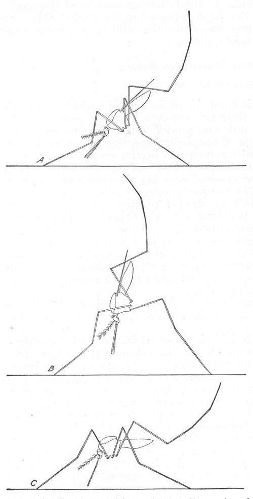 Resting positions of adult mosquitoes (family Culicidae): A and B, Anopheles (subfamily Anophelinae); C, Culex (subfamily Culicinae)